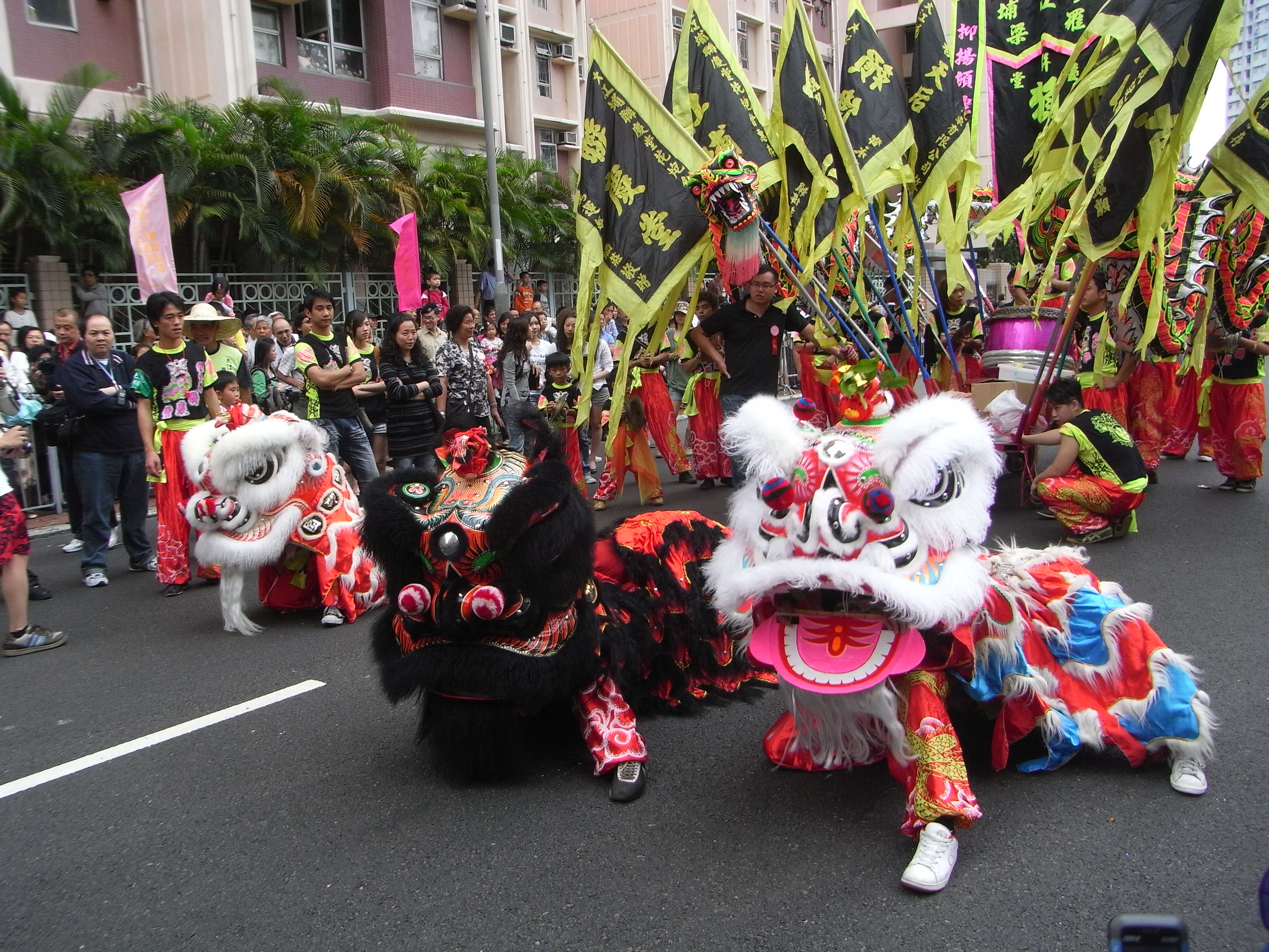 Lion dance, the Parade of Heaven Goddess Festival in Yuen Long, Hong Kong